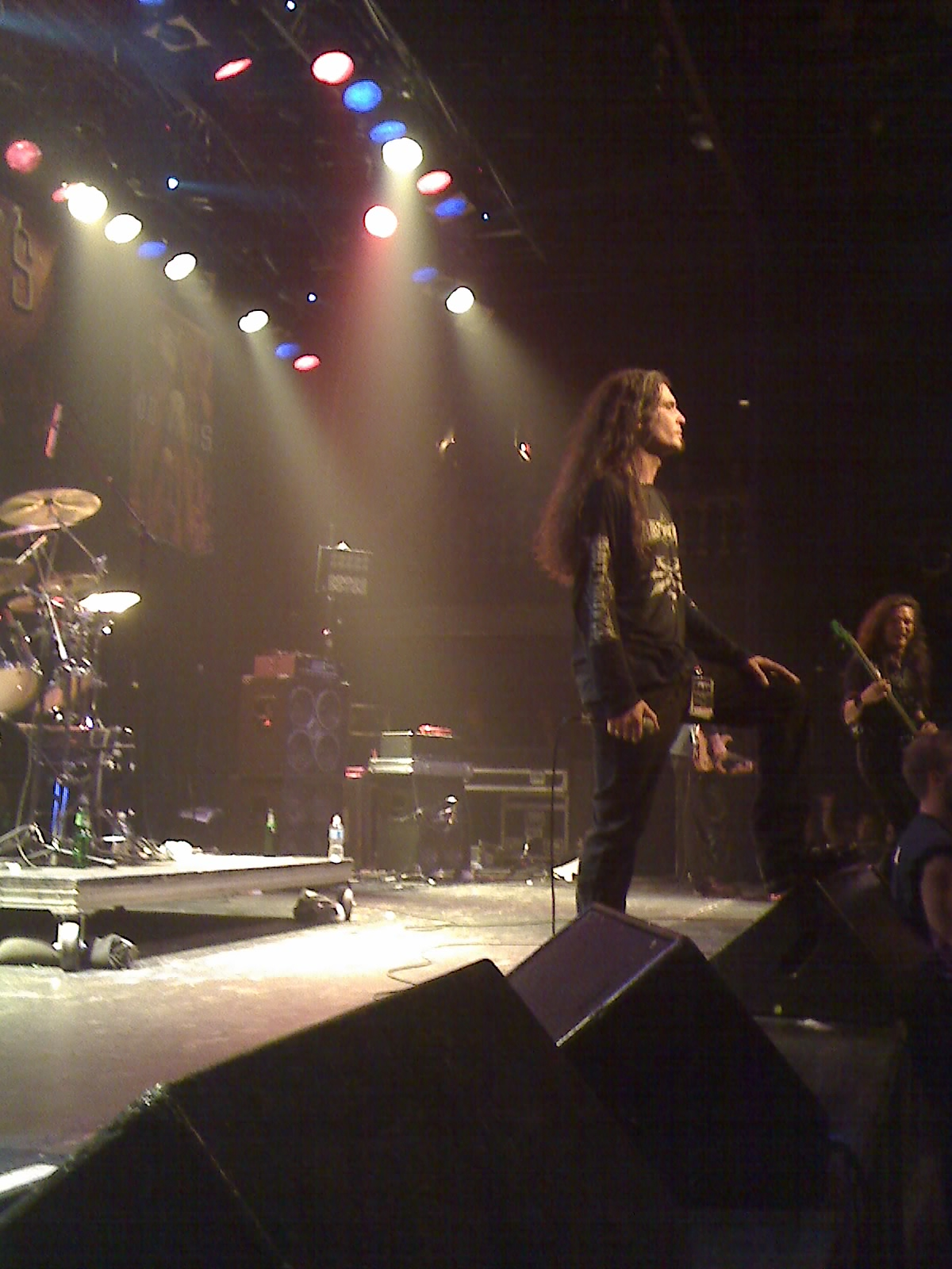 Stéphane Paré on stage at the Medley at his final show with Quo Vadis on September 6th 2008.